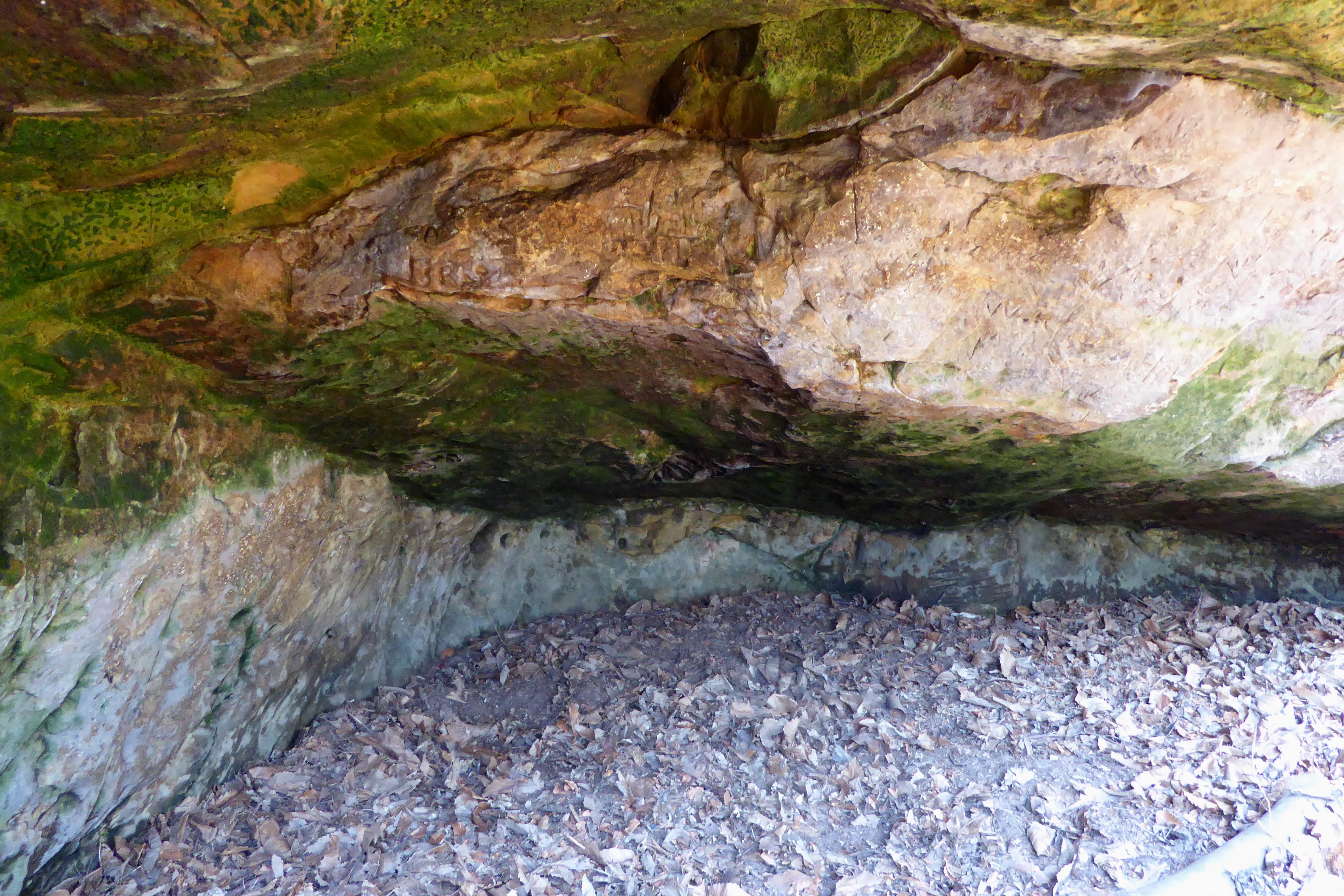 Interior of the southern rock shelter on Oldbury Hill, Kent.